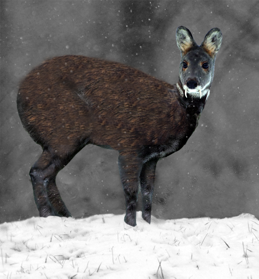 Siberian Musk Deer in the taiga